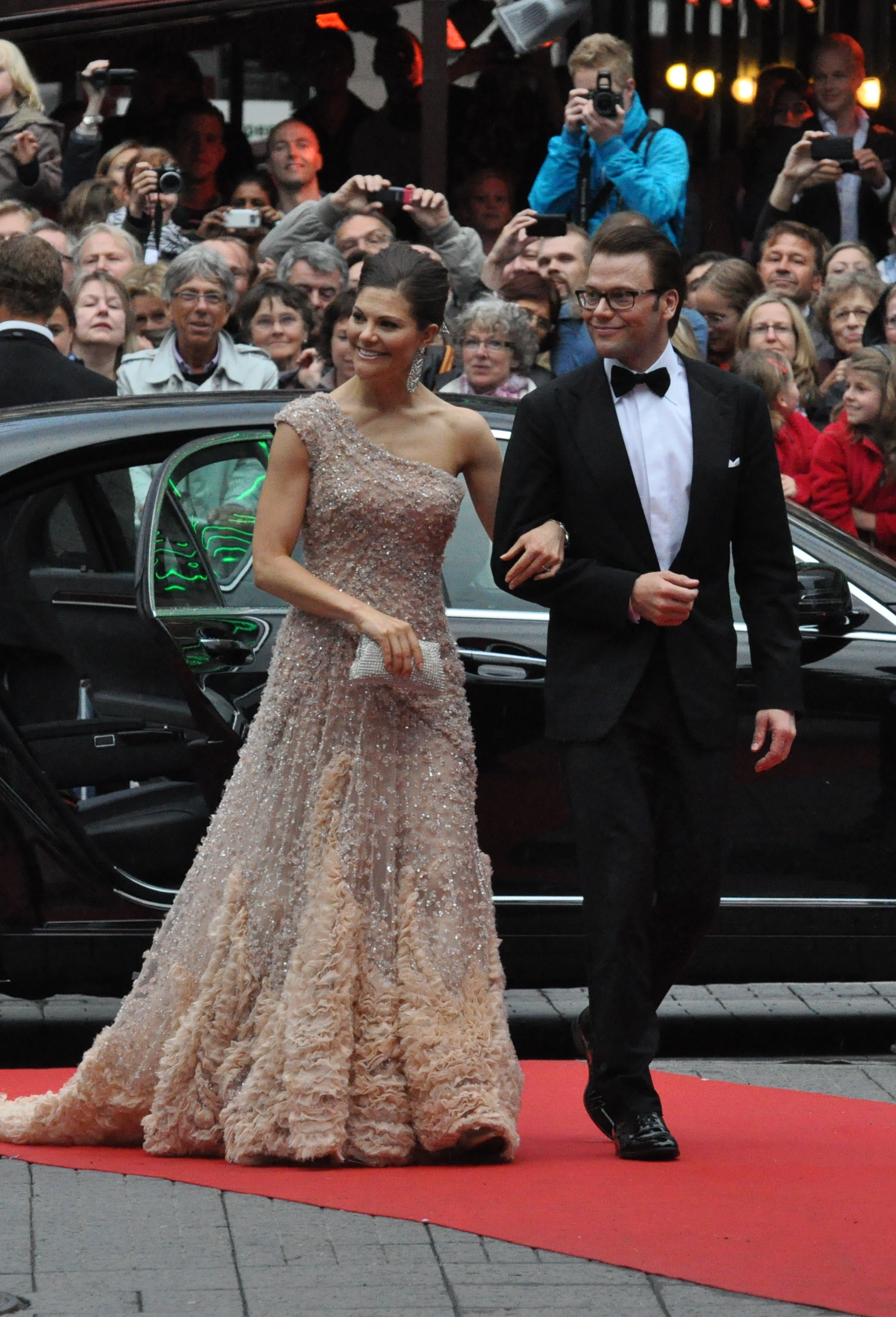 Wedding of Victoria, Crown Princess of Sweden, and Daniel Westling; Arrival to the Riksdag's Gala Performance at Konserthuset: HRH Victoria and Daniel